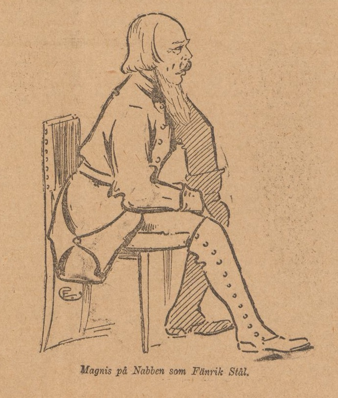 Folklore actor Nikolaus Bergendahl, aka Magnis på Nabben, in his role as Fänrik Stål, played at Skansen, in Stockholm around 1900.